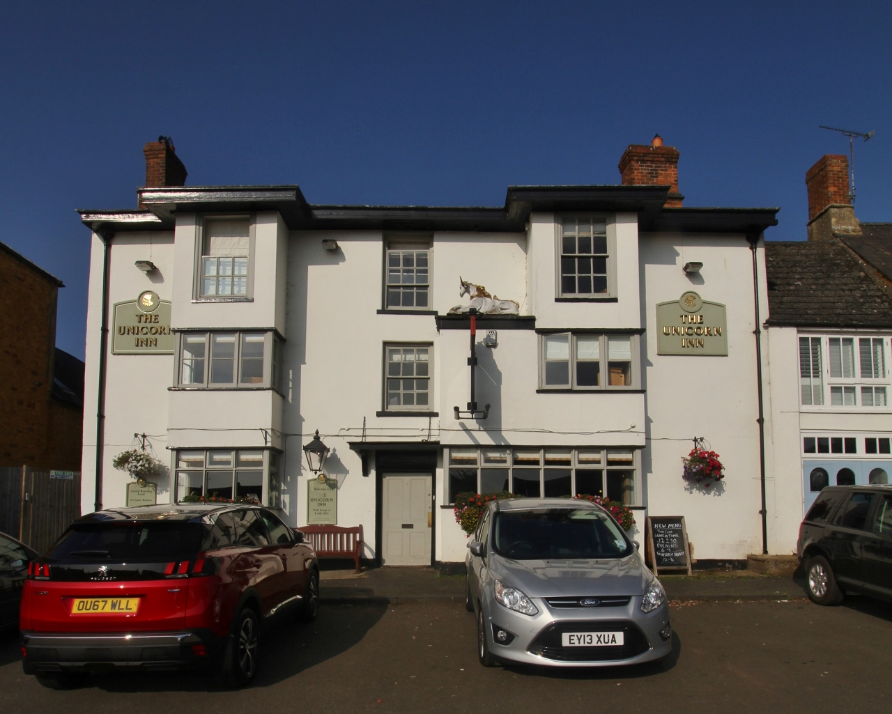 The Unicorn Inn, Market Place, Deddington, Oxfordshire, seen from the east